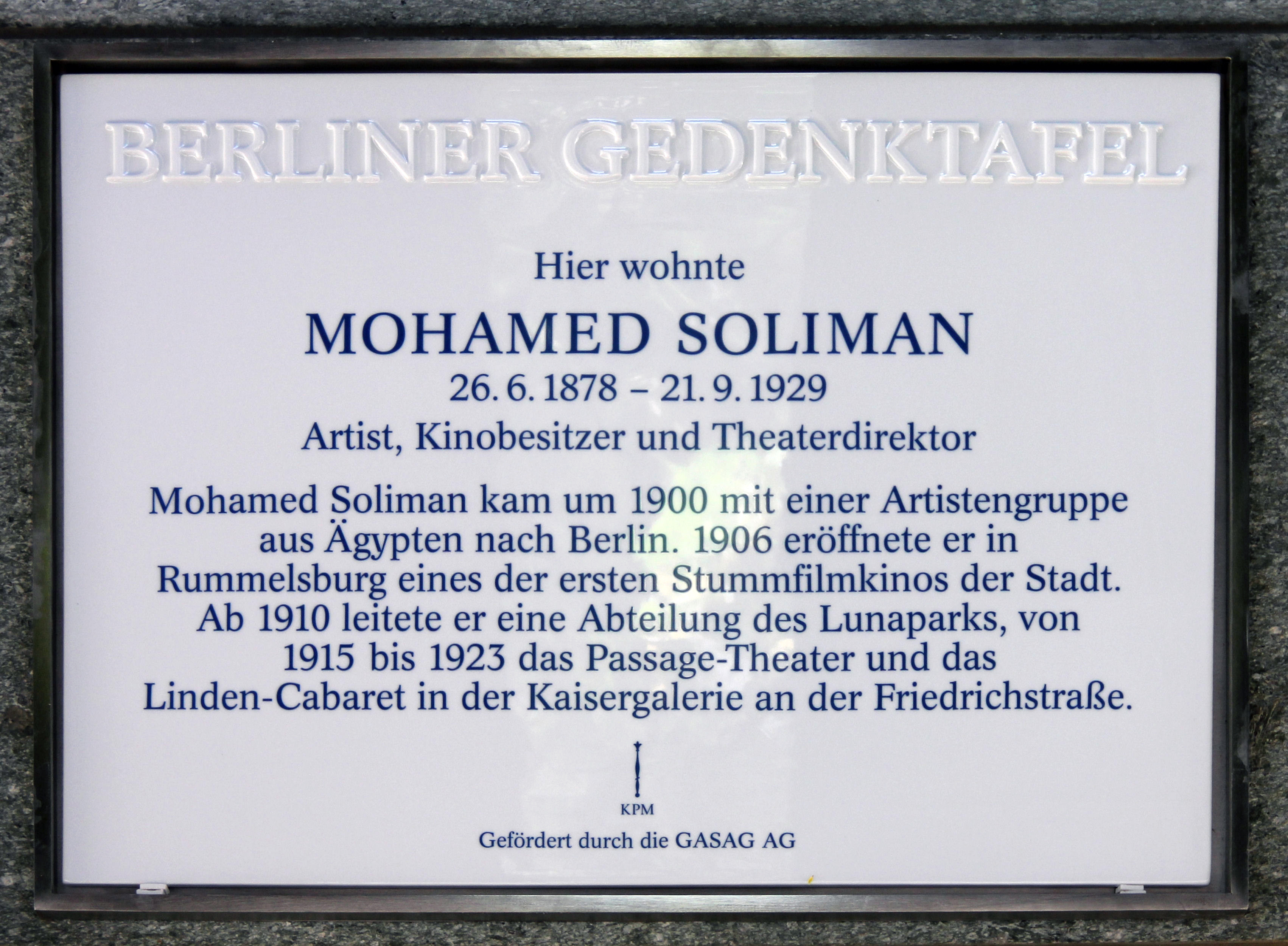 Berlin memorial plaque, Mohamed Soliman, Oranienburger Straße 65, Berlin-Mitte, Germany